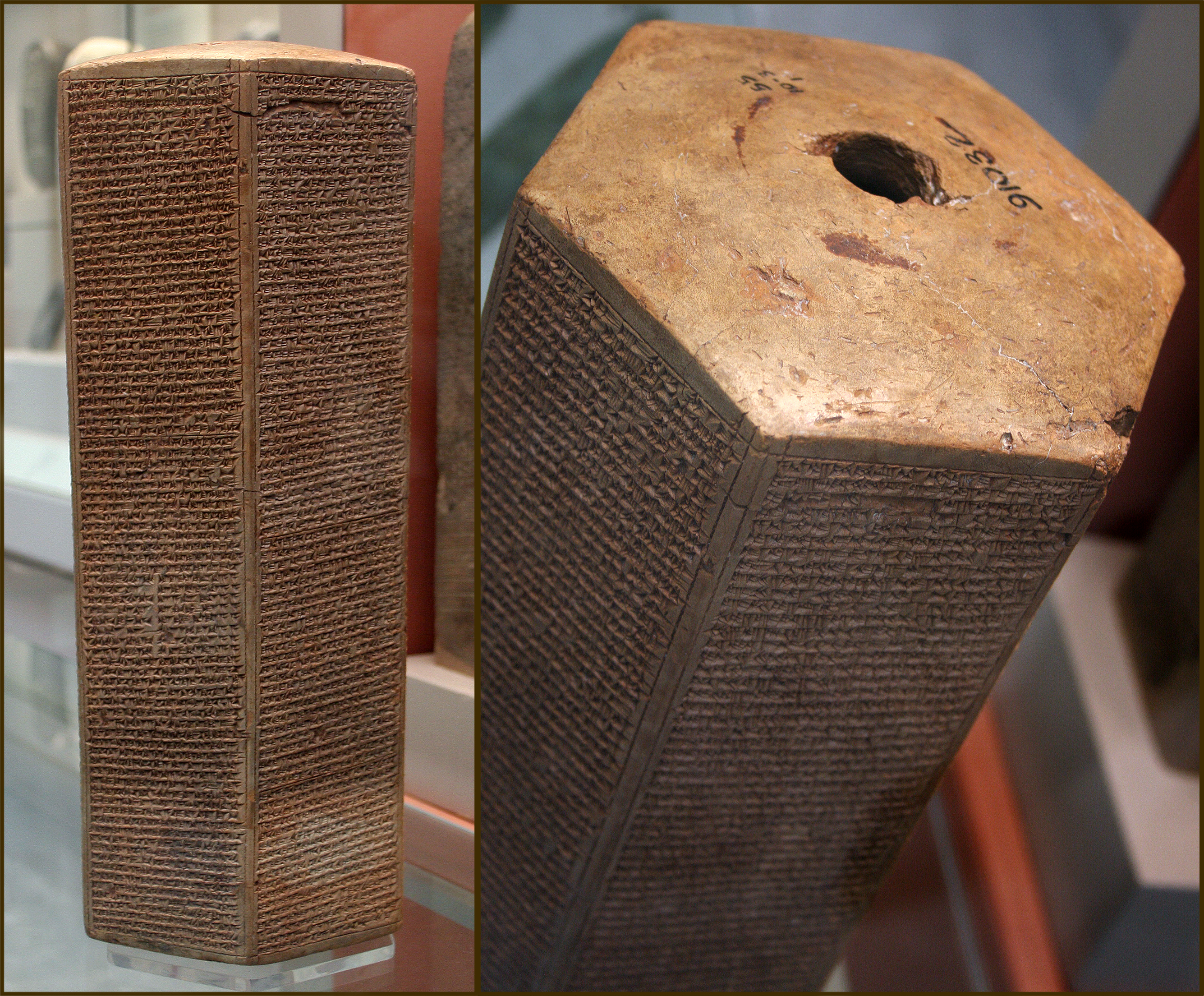 The Taylor Prism from the Neo-Assyrian empire tells the story of king Sennacherib's third campaign and includes descriptions of his conquests in Judah, some of which are described from another point of view in the old testament of the Bible. This picture has been assembled from File:Taylor Prism-1.jpg and File:Taylor Prism-2.jpg.